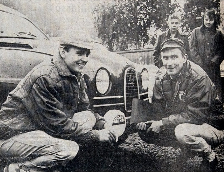 Simo Lampinen and co-driver Jyrki Ahava after winning the 1964 1000 Lakes Rally (Rally Finland).